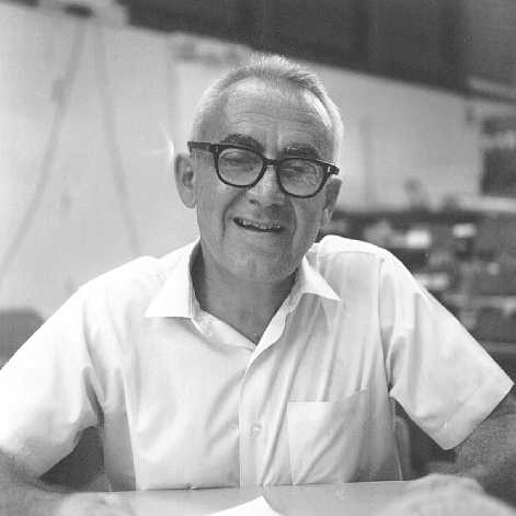 Dr. William Vitarelli, formerly of the Trust Territory of the Pacific Islands, at the Pacific Asian Studies Association Conference in 1974.